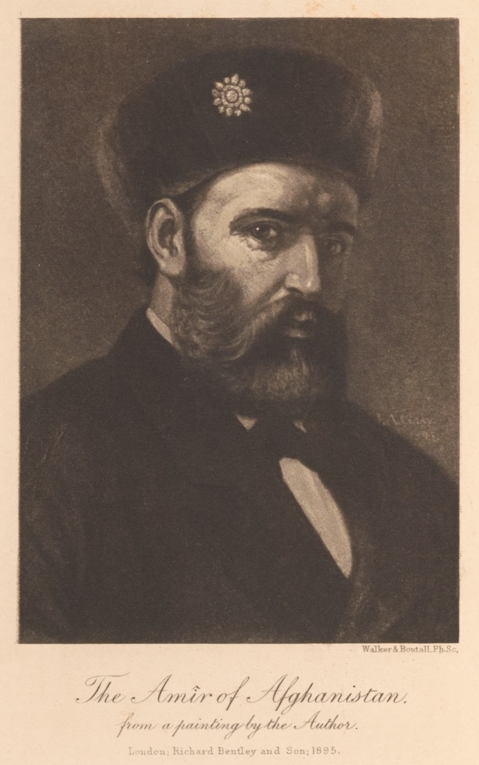 Painting of Abdur Rahman Khan, King of Afghanistan from 1880 to 1901.